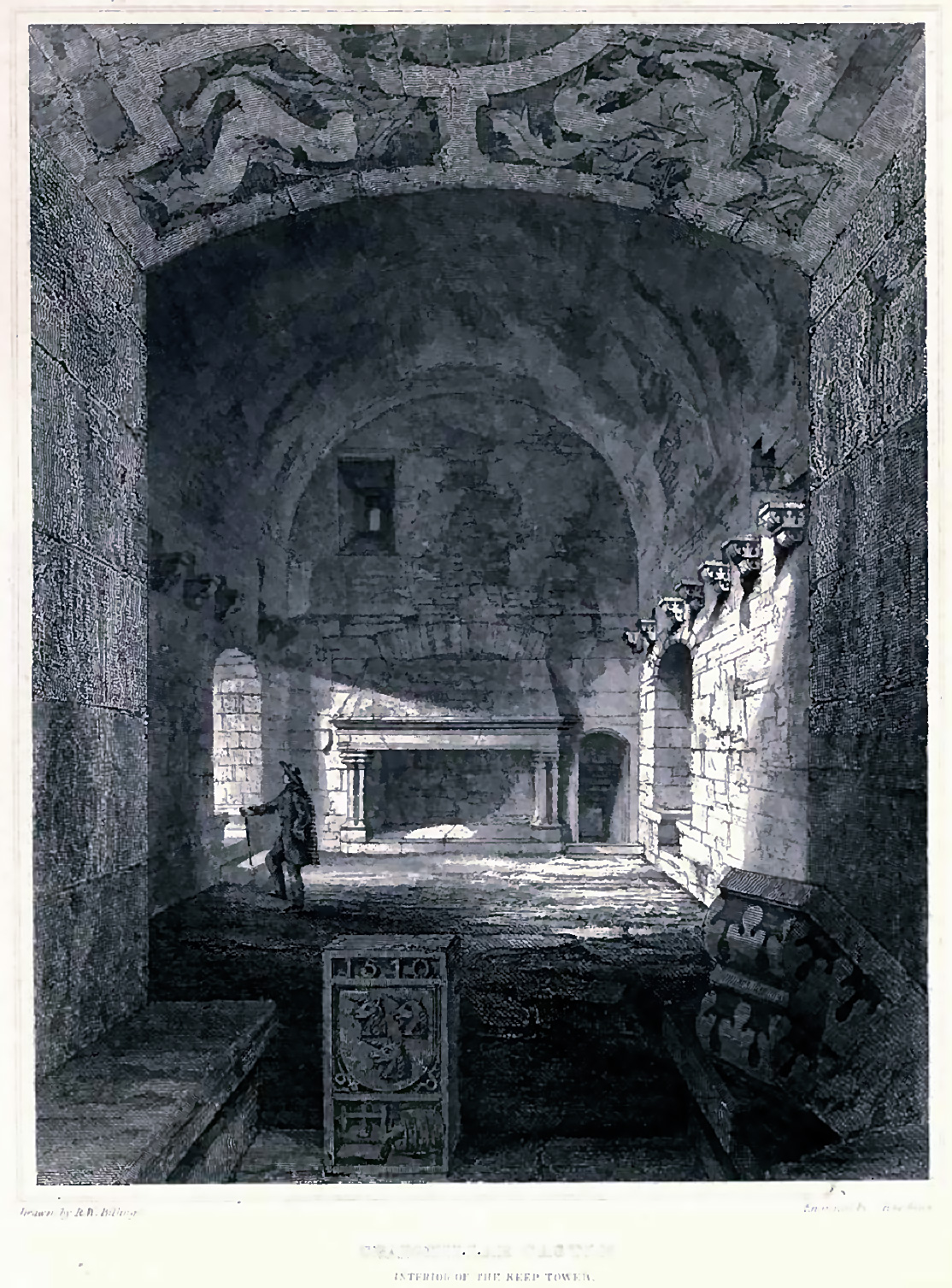 Craigmillar Castle, Scotland.